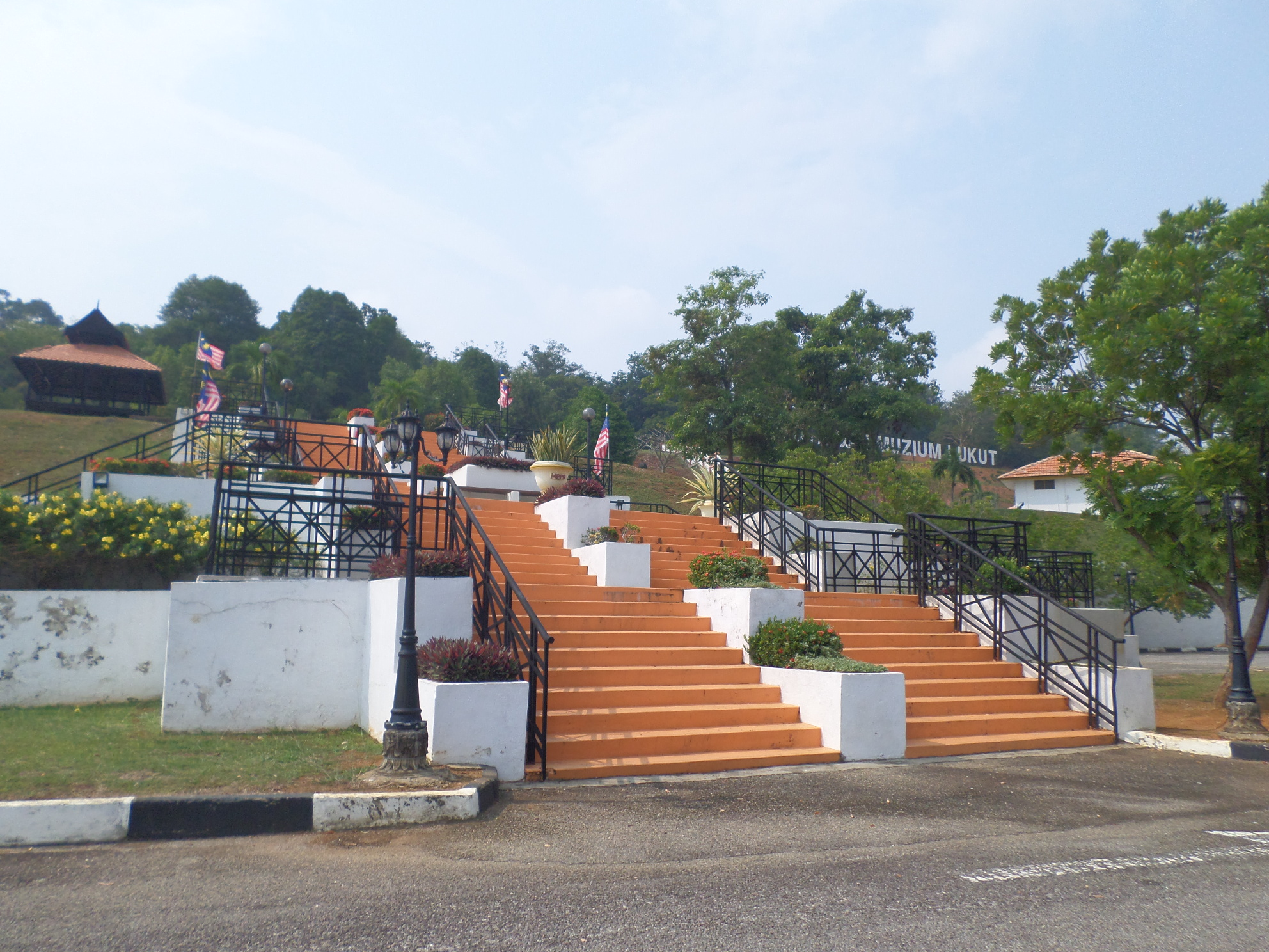 Lukut Museum and Fort, Port Dickson, Negeri Sembilan, Malaysia (05-NSN/7)